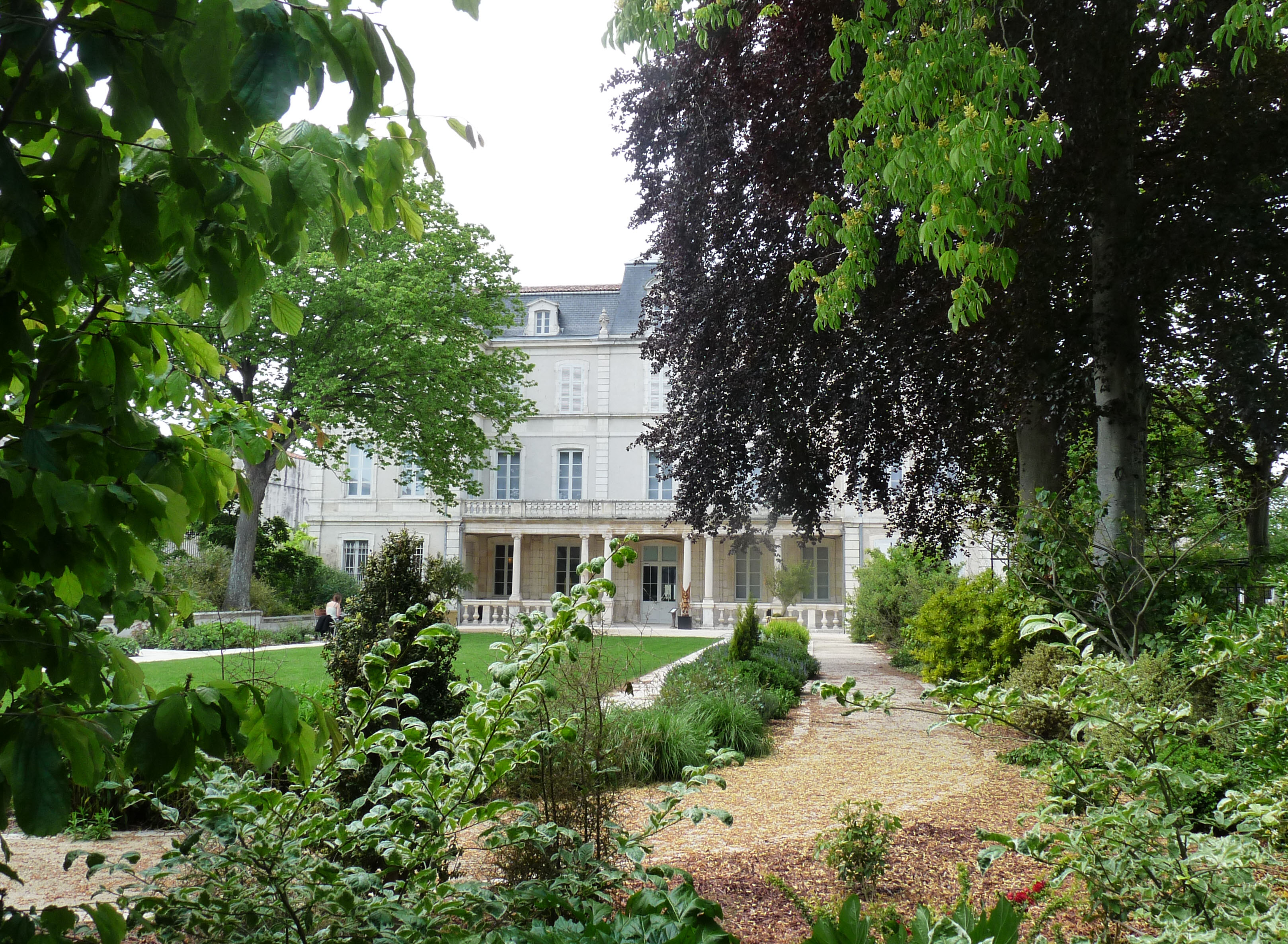 Garden of Muséum d'histoire naturelle de La Rochelle